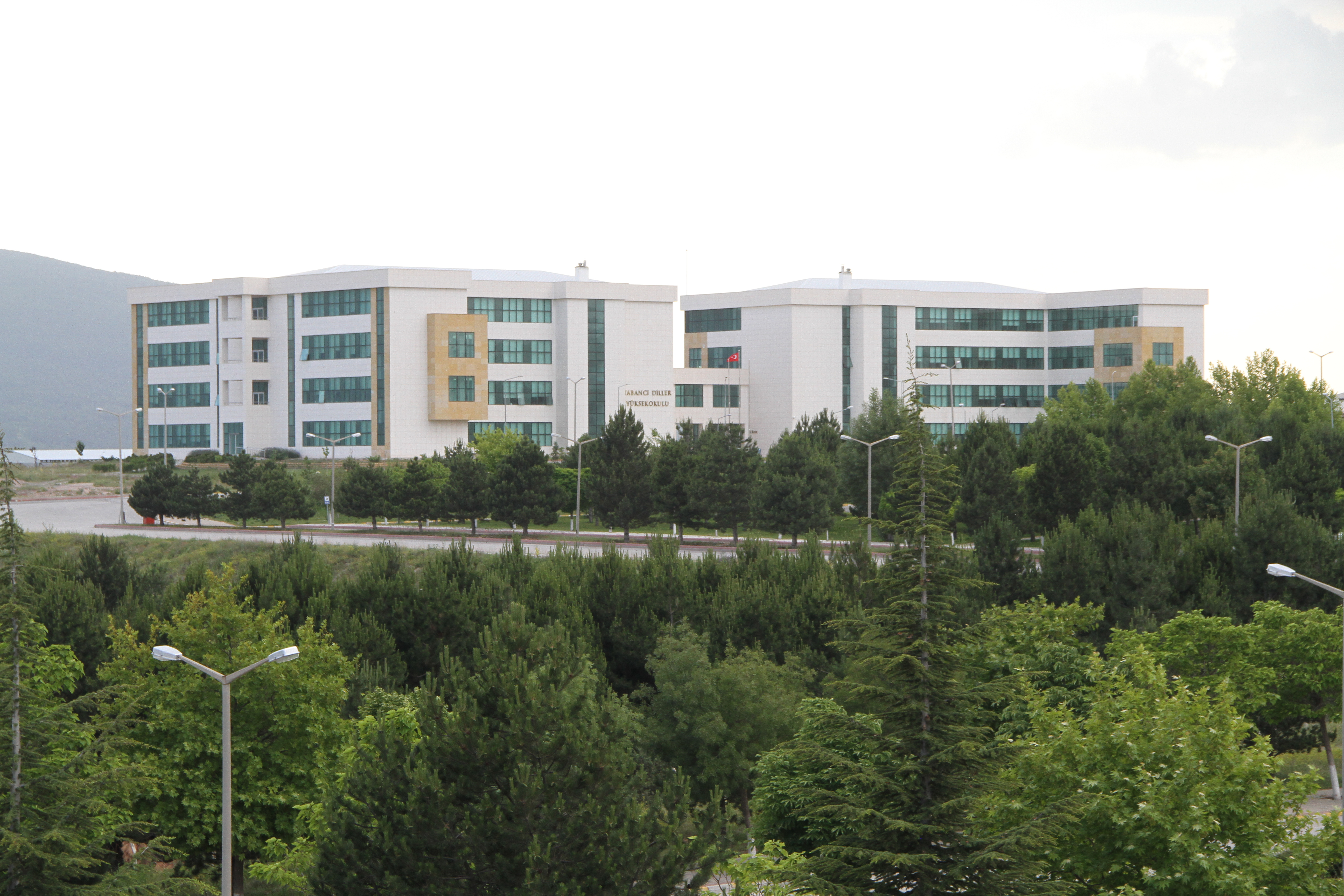 Kütahya Dumlupınar University's School of Foreign Languages at Evliya Çelebi Campus